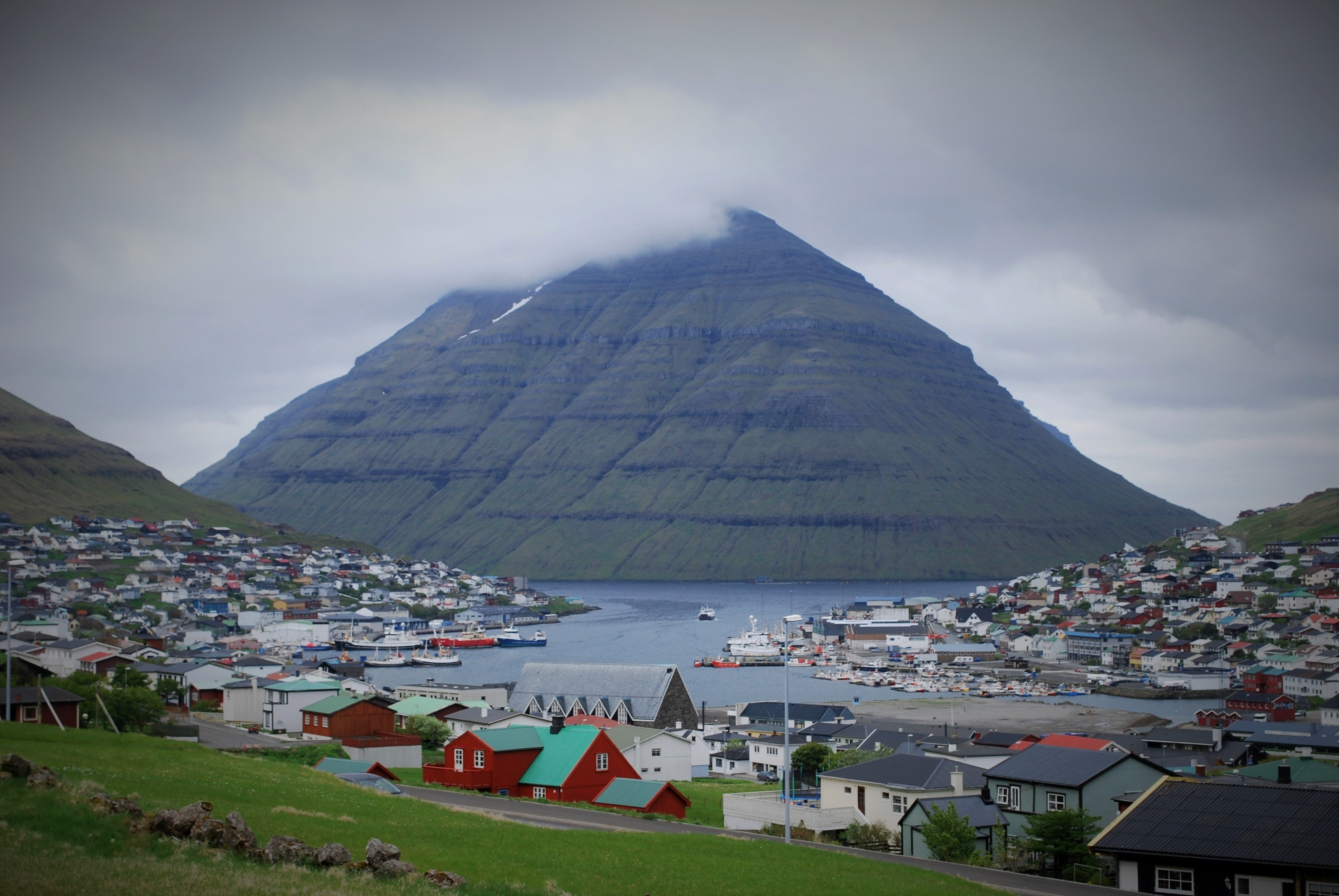 Klaksvík, Borðoy, Faroe Islands